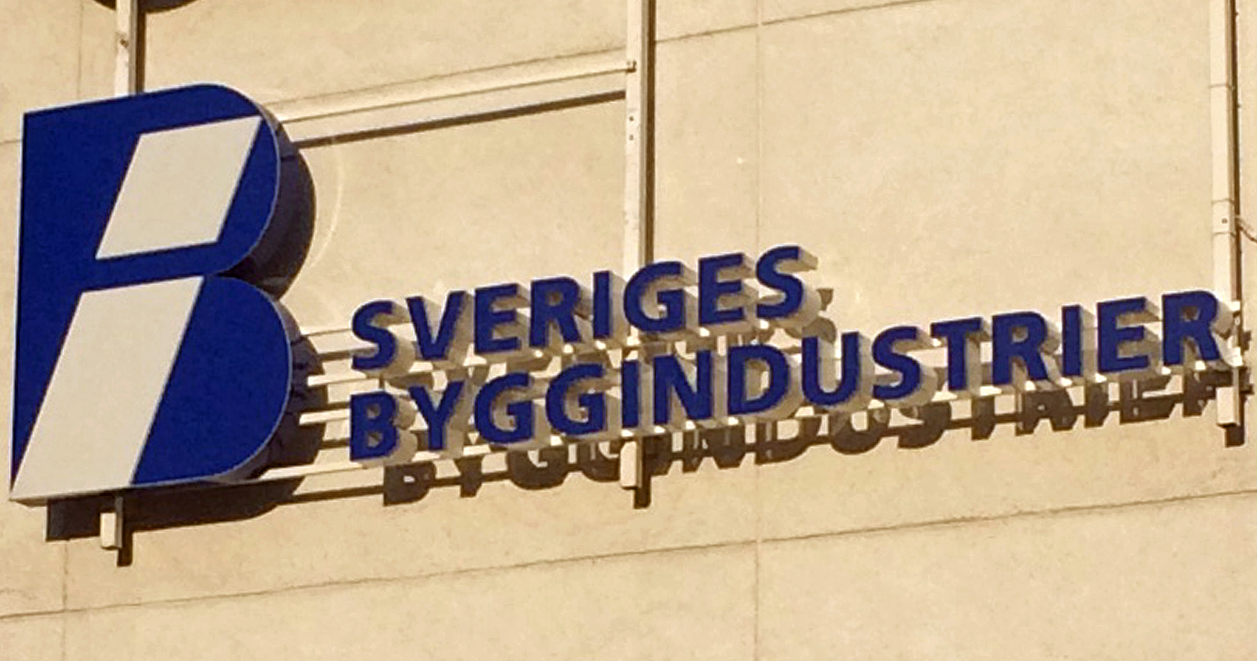 Sign with the logo of the Swedish Construction Federation